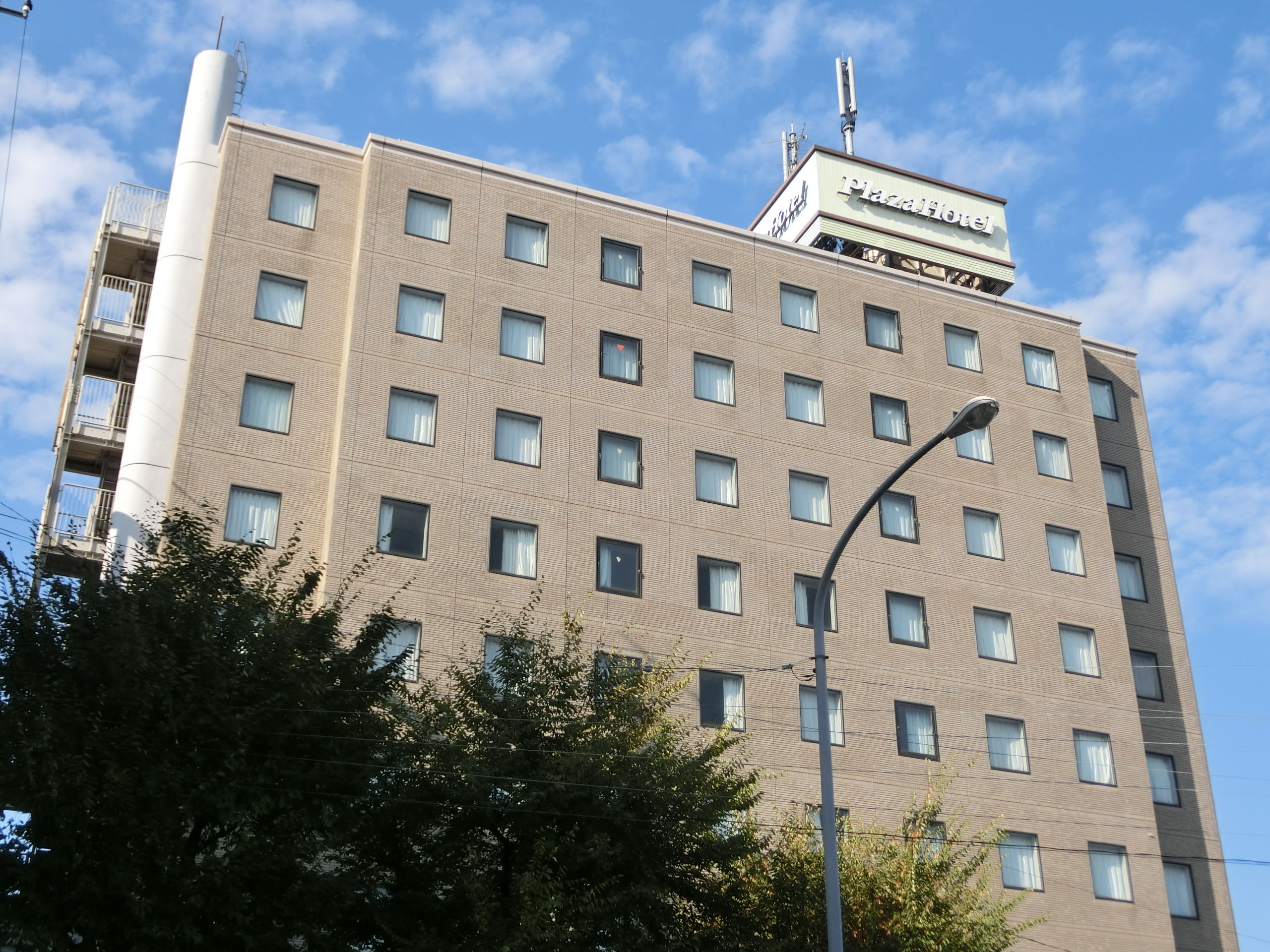 Plaza Hotel Urawa